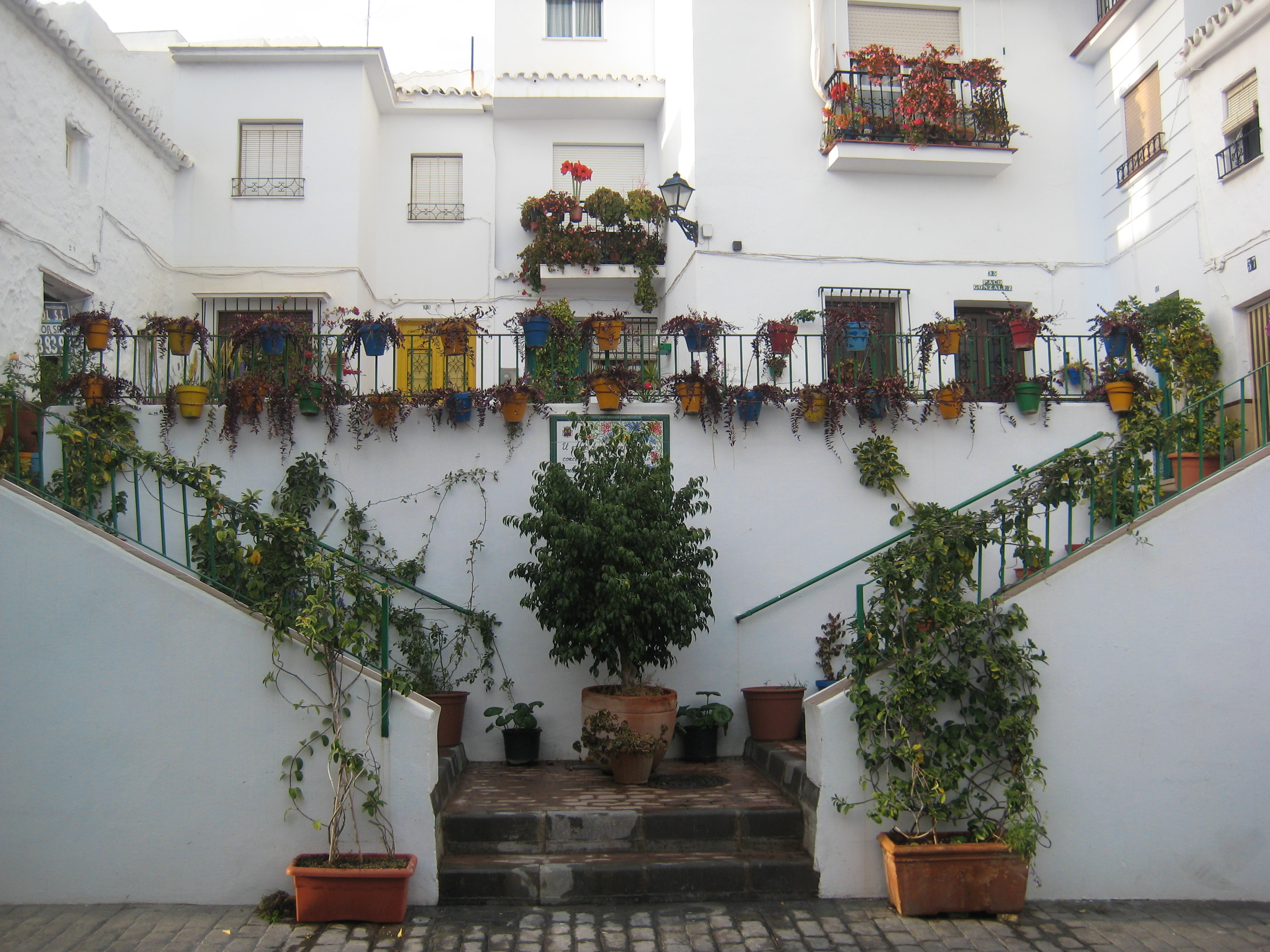 Street in Torrox, Málaga, Spain